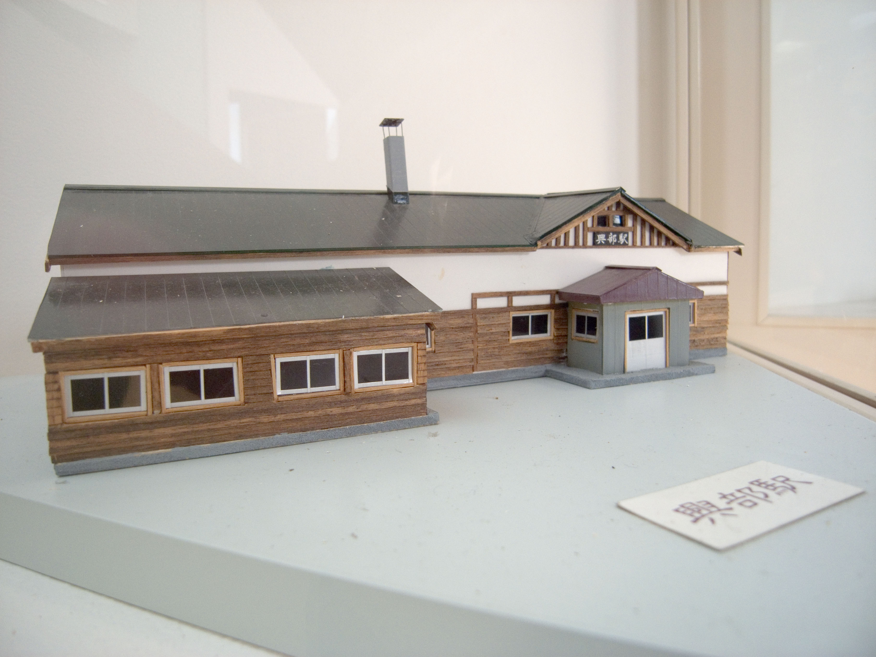 Miniature of Okoppe Station building, displayed at Michinoeki Okoppe in Hokkaido, Japan